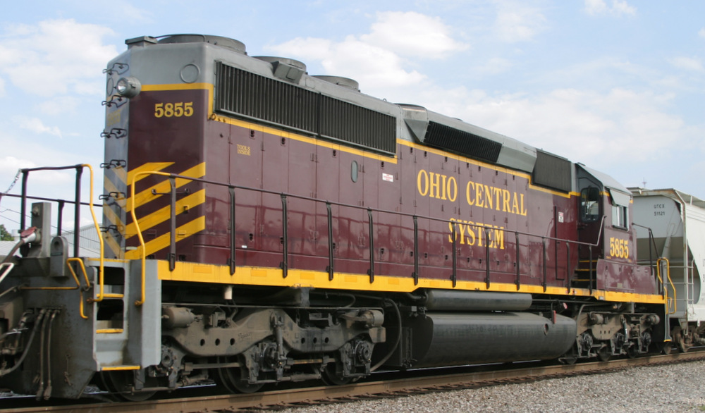 image of Ohio Central System RR SD40-2 #5855, May 12, 2003, Houston, Tx